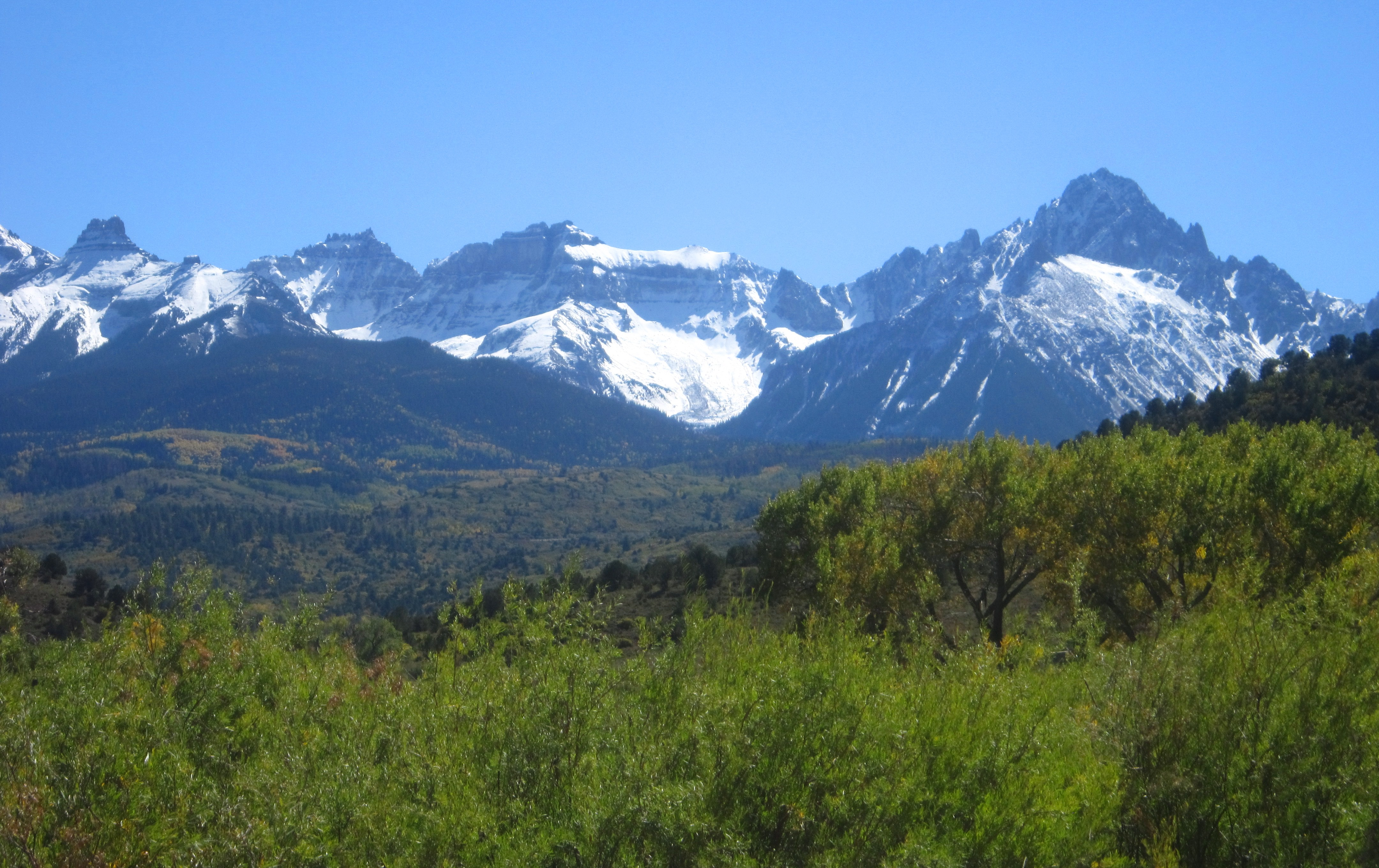 Sneffels Range near Ridgway Colorado